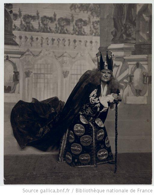 Sleeping Beauty - London 1921 Enrico Cecchetti as Carabosse